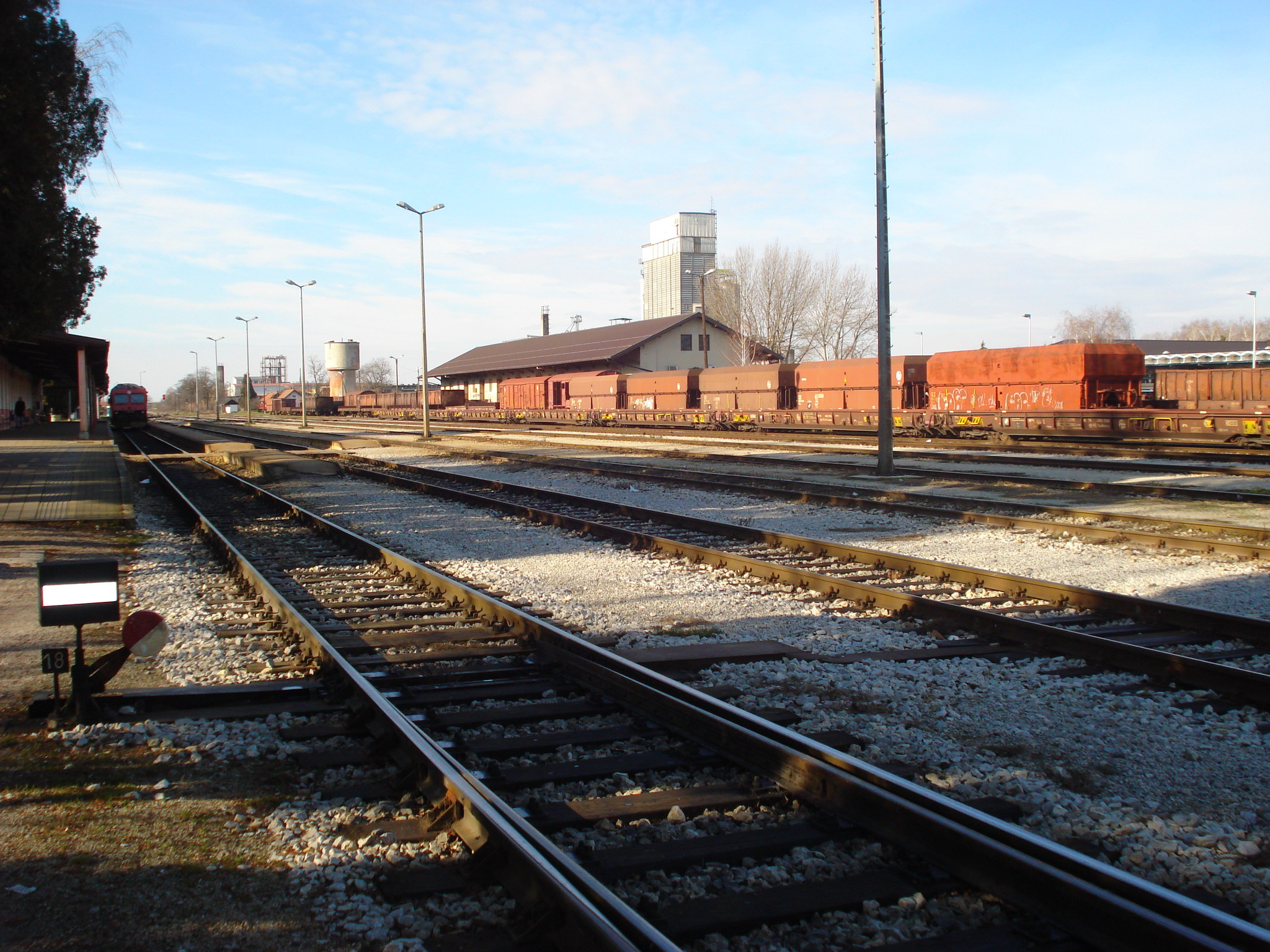 Čakovec railway station, Medjimurje County, northern Croatia - rail tracks